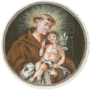 Coat of Arms of Maišiagala city in 1792